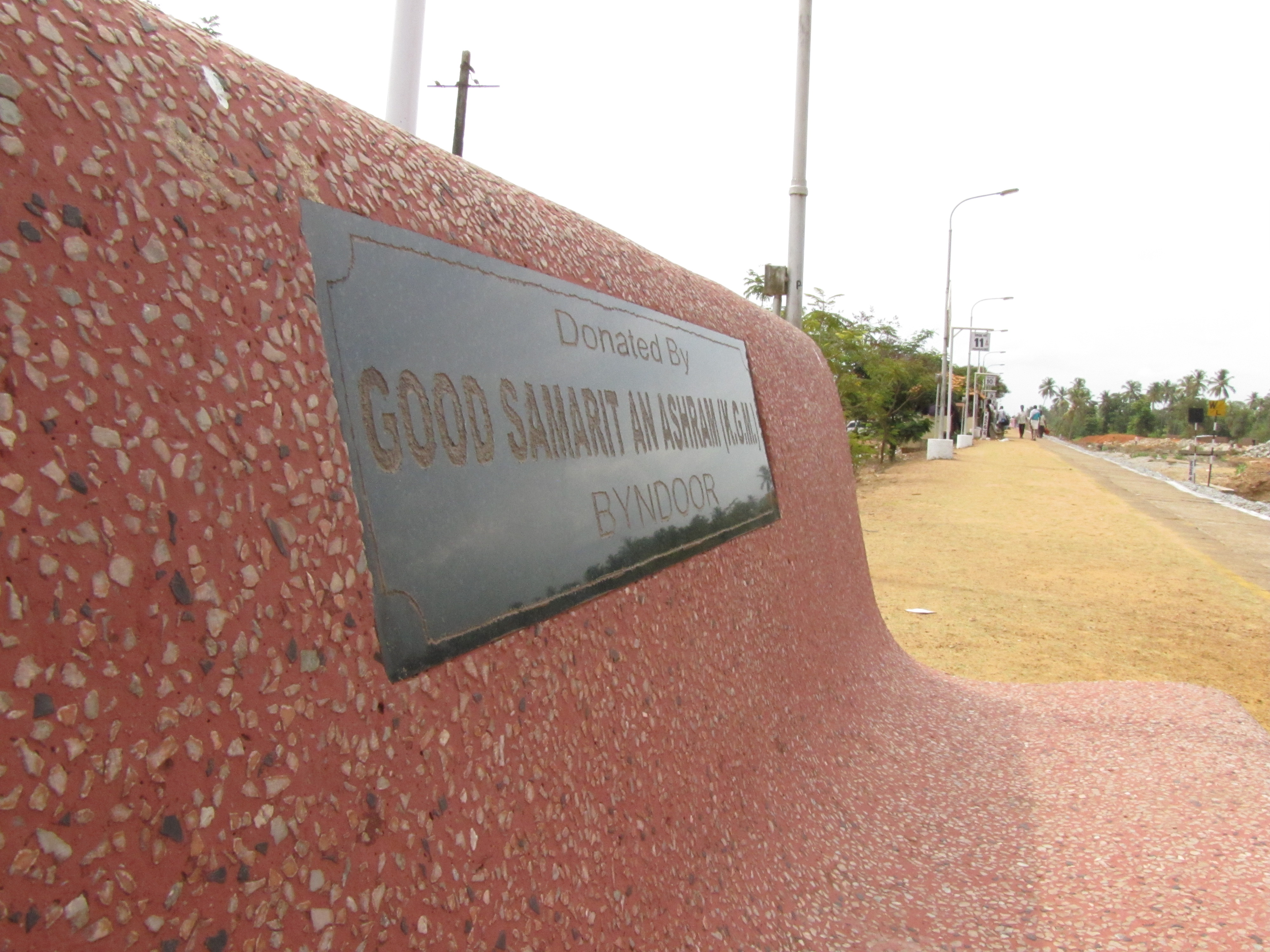 A seat donated by well wishers in Byndoor railway station